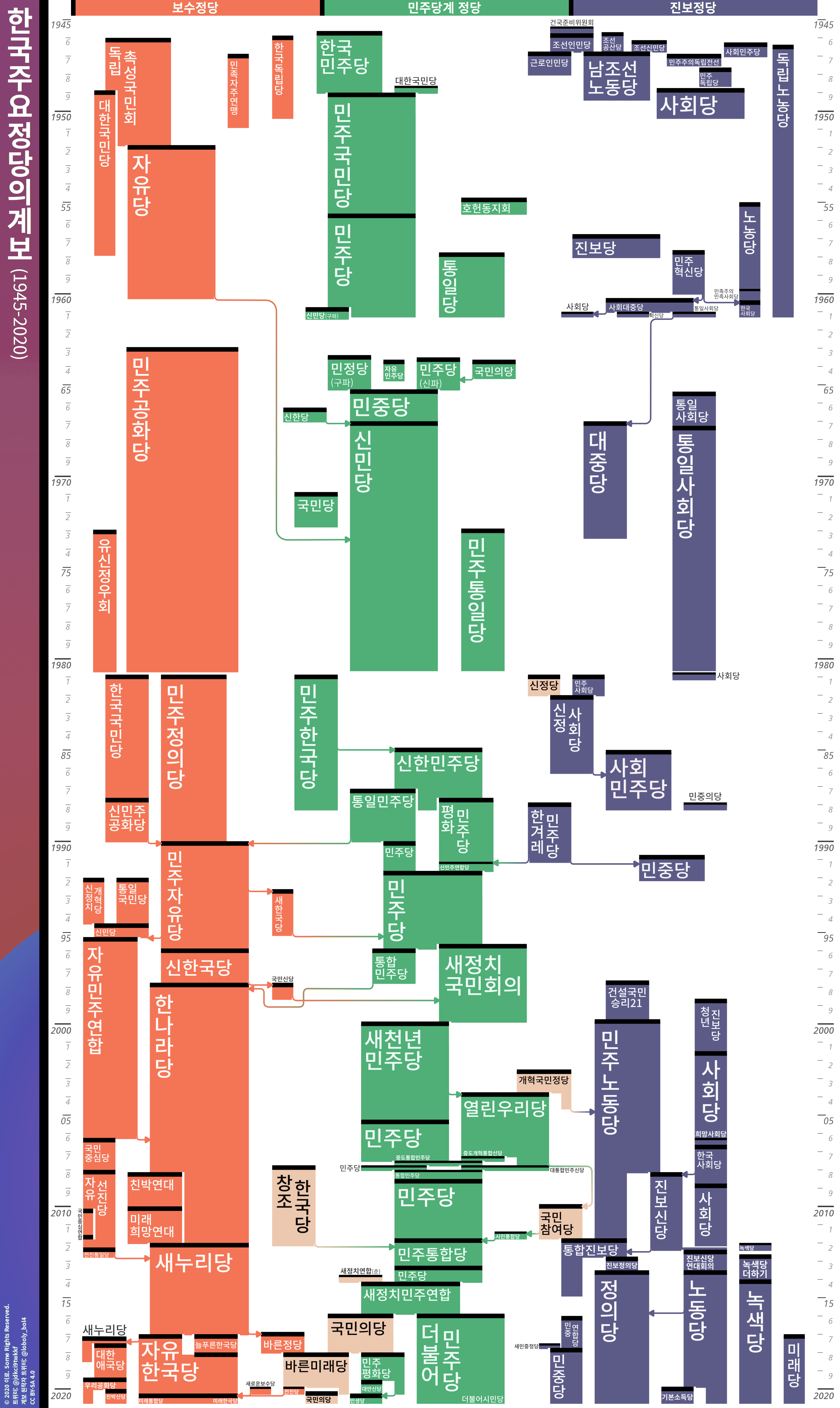 대한민국의 주요정당 시계열표